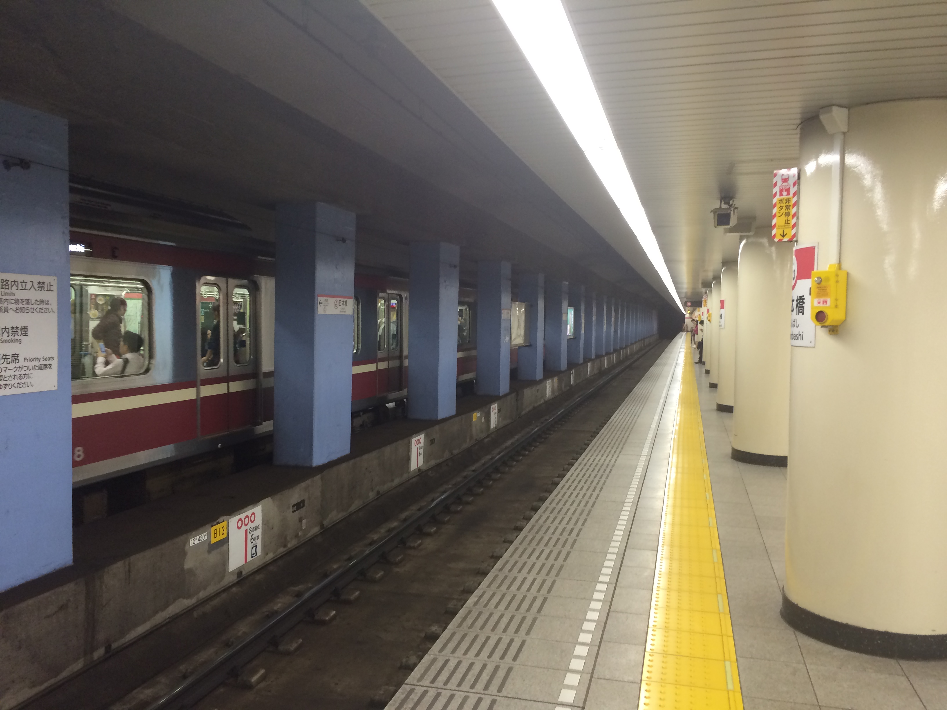 The Asakusa Line platforms at Nihombashi Station in Tokyo